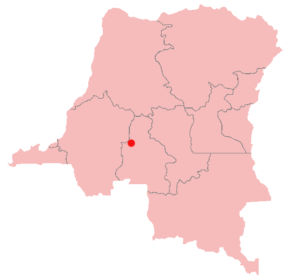 Ilembo, Democratic Republic of the Congo Location Map; created with the GIMP. Made by User:Acntx.